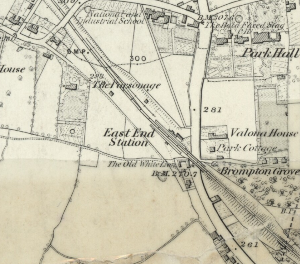 East Finchley station (then named East End) in north London on a 1873 Ordnance Survey map.